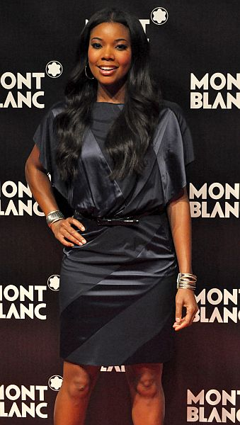 Actress Gabrielle Union attends "To John - With Peace & Love" Global Launch Of The Montblanc John Lennon Edition on September 12, 2010 at Jazz at Lincoln Center in New York City. (Photo © Nick Stepowyj)